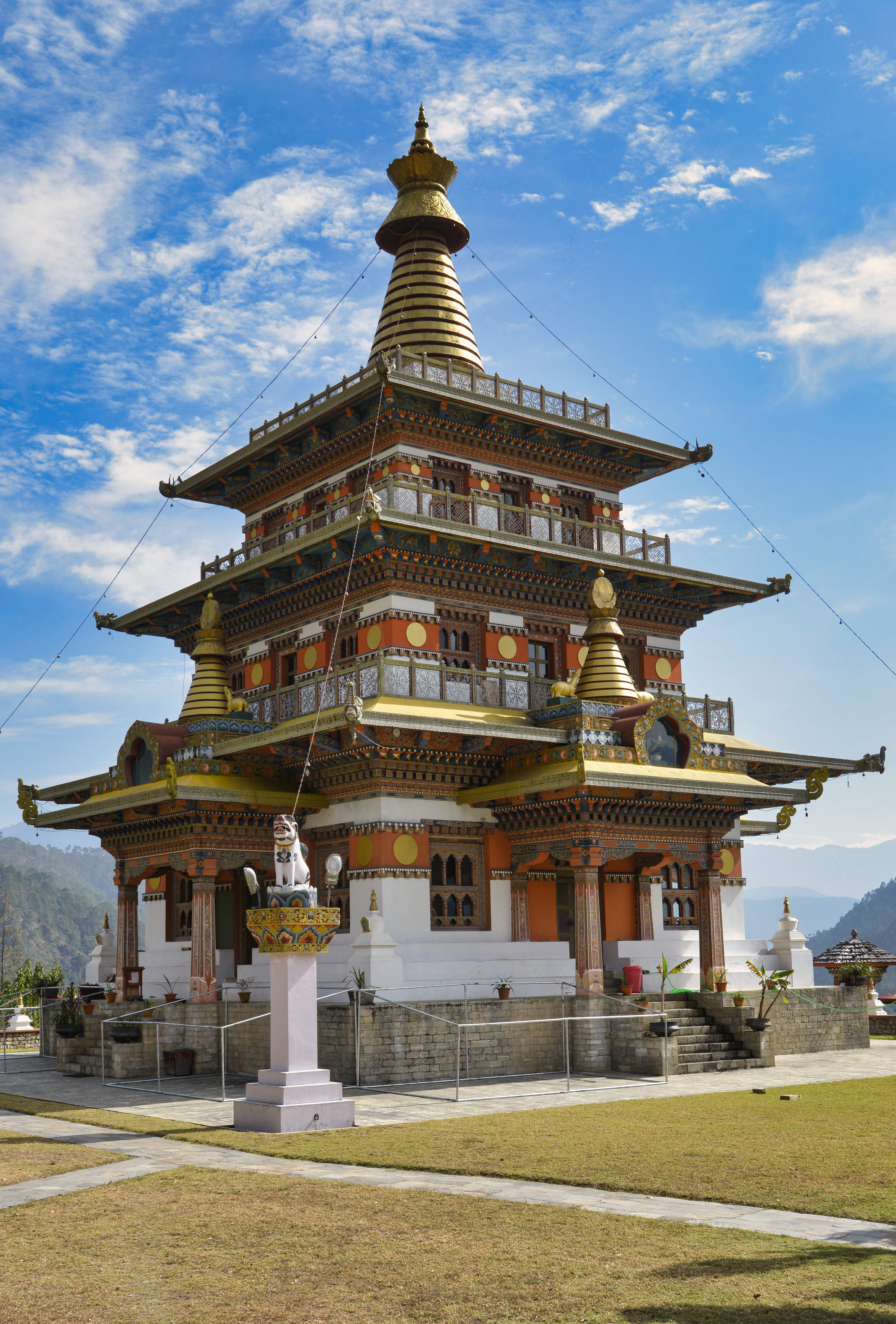 Kamsum Yul-le Namgyal Chöten — in the Punakha district, Bhutan. Also known as Nyizergang Chöten and Punakha Zangdopelri. This Chöten (stupa) was built in 2004 by HM the Queen Mother, Ashi Tshering Yangdon Wangchuck, in Nyizergang — about a thirty minute walk uphill from the footbridge in Yepaisa Village. It was built in accordance with the instructions of Lopon Sonam Zangpo, with the intention of bringing peace in the world in general, and to clear obstacles for the country of Bhutan in particular. Its exterior is in the form of a pagoda like stupa while the interior consists of four stories containing images of the dieties of mandalas of Vajarakilaya. Bartsham Lama Kunzang Wangdi, popularly known as Lama Nyingkula, a close disciple of HH Dudjom Rinpoche was in charge of the construction of this Chöten.